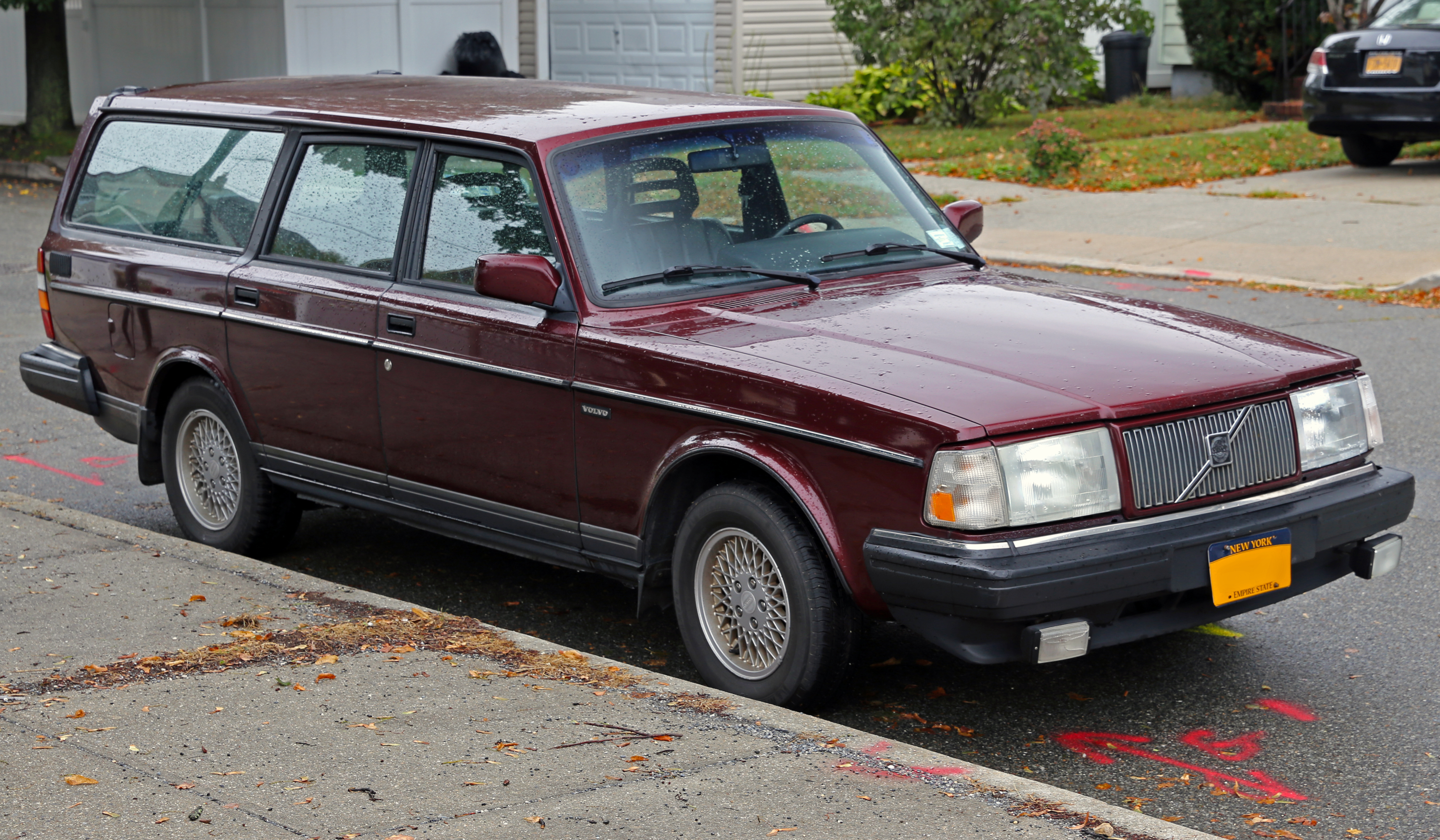 A 1993 Volvo 240 Classic Wagon. This (Ruby Red) was one of two colors, they were also available in Metallic Dark Teal Green. 1600 numbered examples were built in April and May 1993 for the North American market, fully equipped with body colored grille and mirrors, alloy wheels, power everything, leather interior etc etc. The 1993s also benefit from non-CFC air conditioning and a variety of other upgrades.